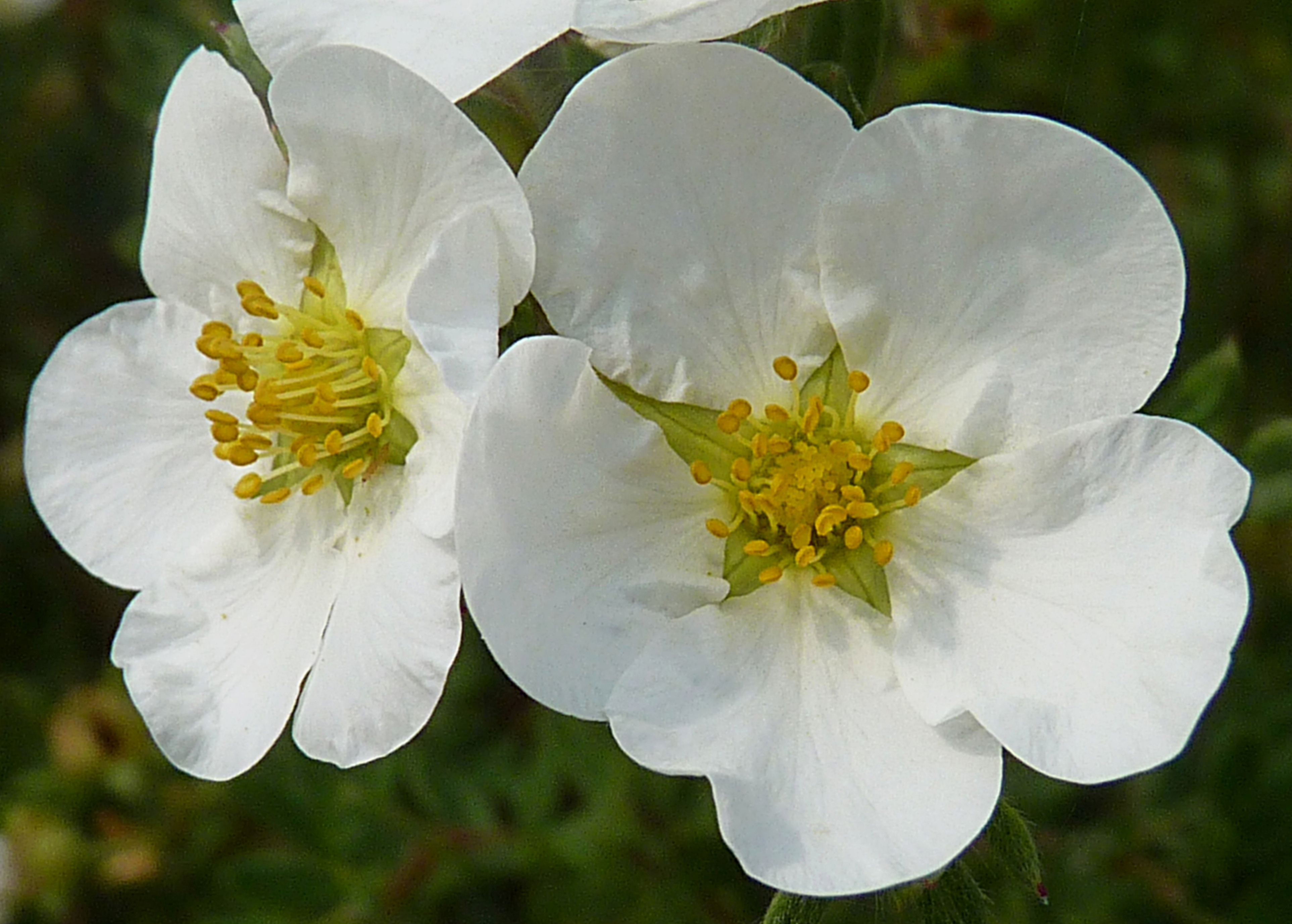 Potentilla fruticosa, in a garden in Belgium.